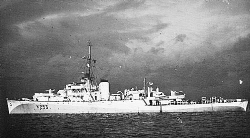 HMS Helmsdale built by A & J Inglis Pointhouse Glasgow, Yard No 1185